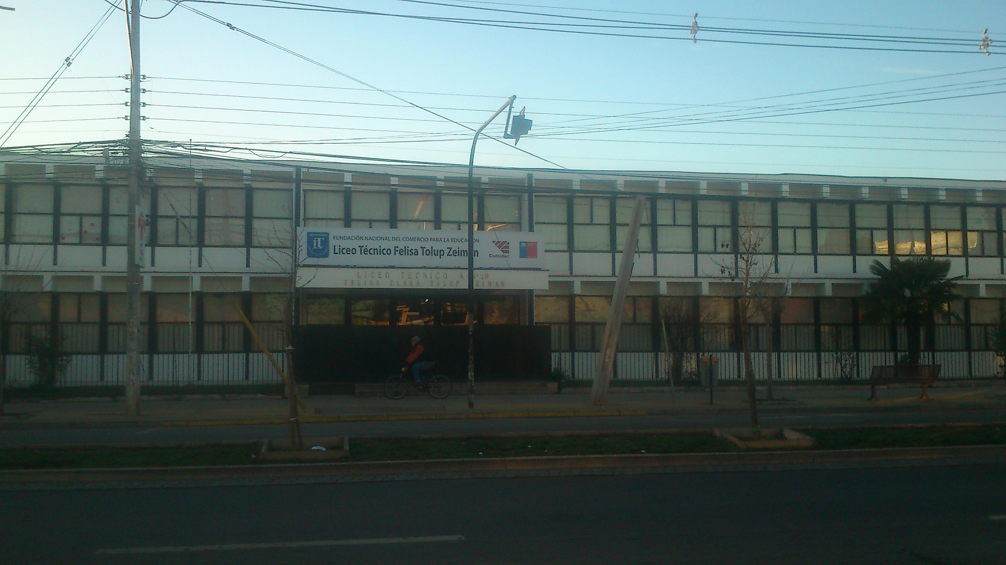 Facade of the Liceo técnico Felisa Tolup Zeiman in San Fernando, Chile.